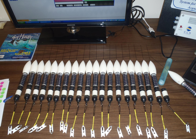 These pop-up satellite tags are ready for deployment on fish to track their migration and behavior.